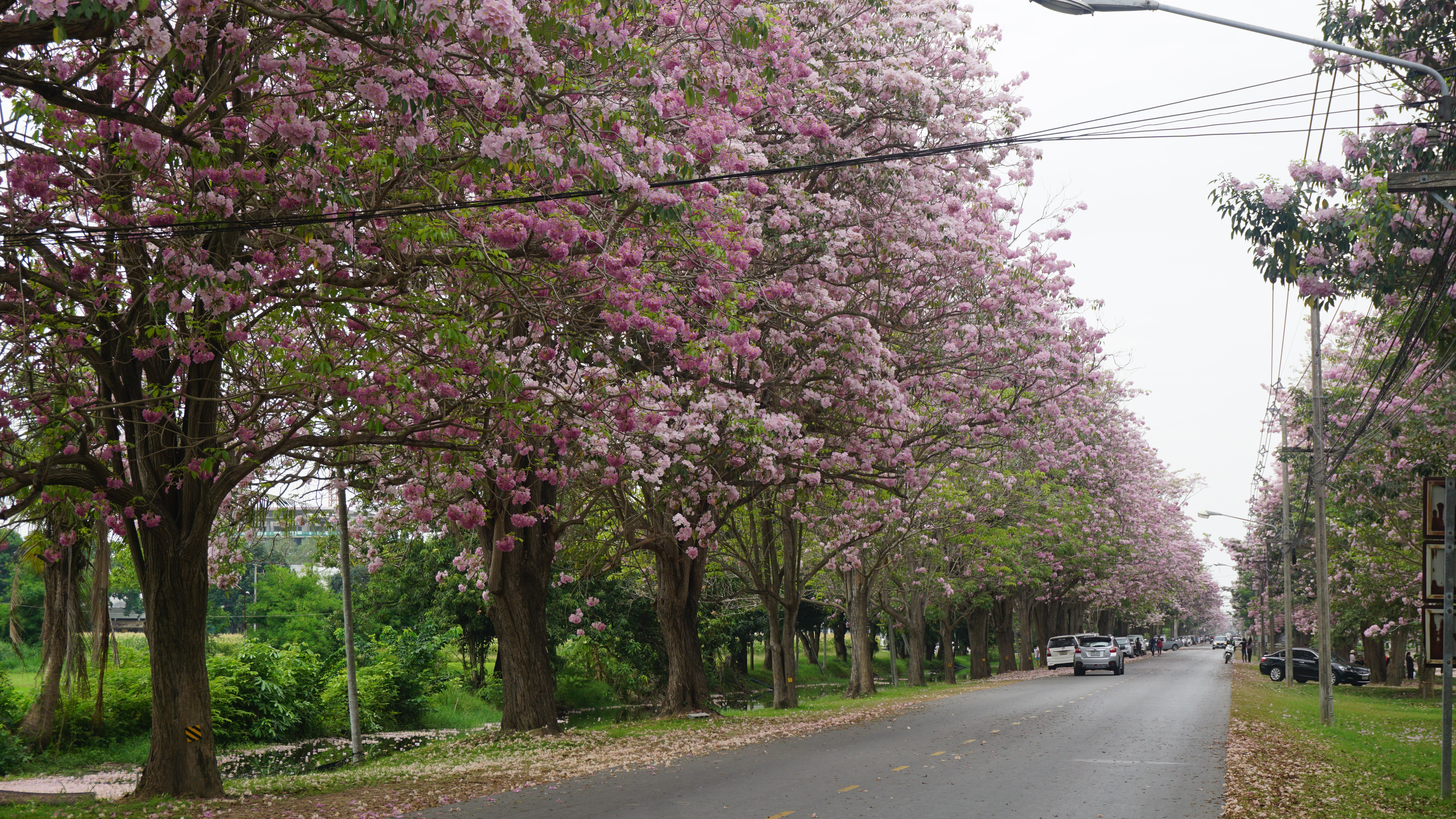 ชมพูพันธุ์ทิพย์ ที่ถนนในมหาวิทยาลัยเกษตรศาสตร์ วิทยาเขตกำแพงแสน